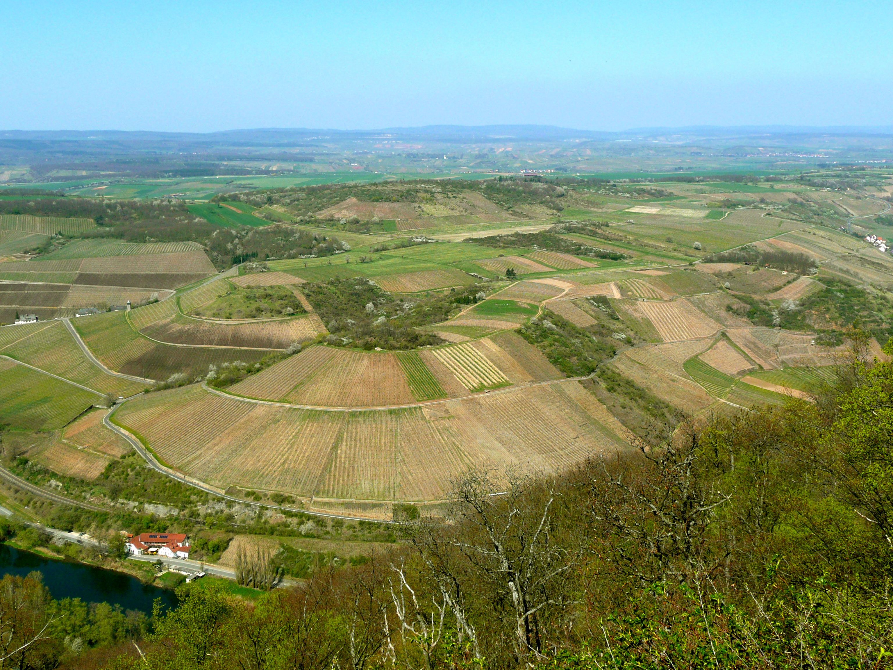 Schloßböckelheim (left) and Niederhausen an der Nahe (right) vineyards as seen from Lemberg (422 m) in Feilbingert towards the North.